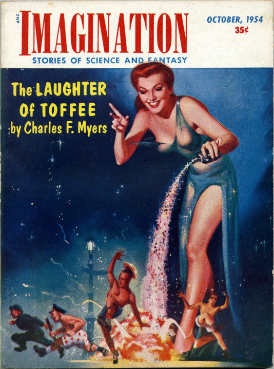 Magazine cover of Imagination (magazine) October 1954 issue.